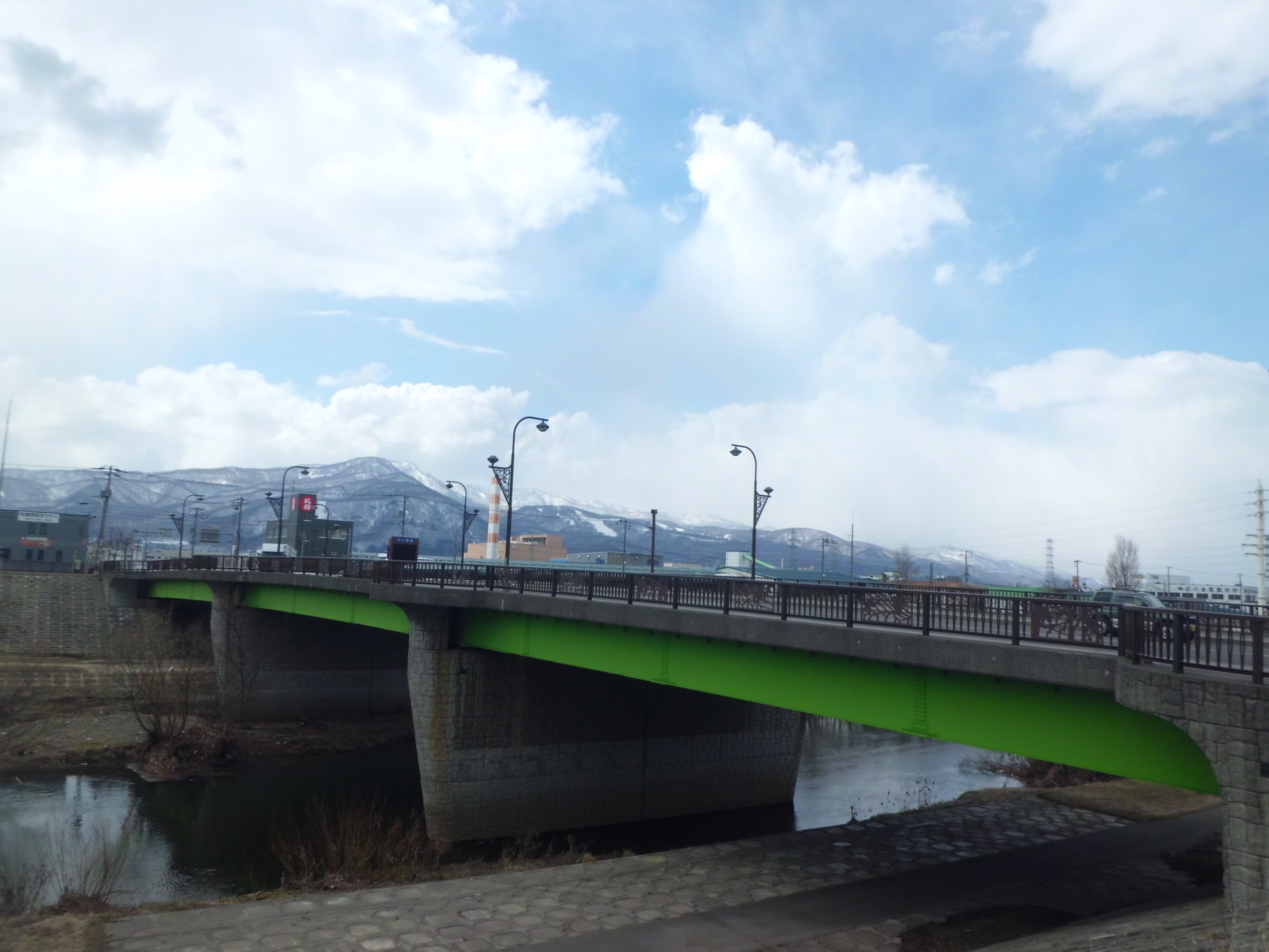 Tengu Bridge on Shin River. Looking the downstream direction from the eastern bank.